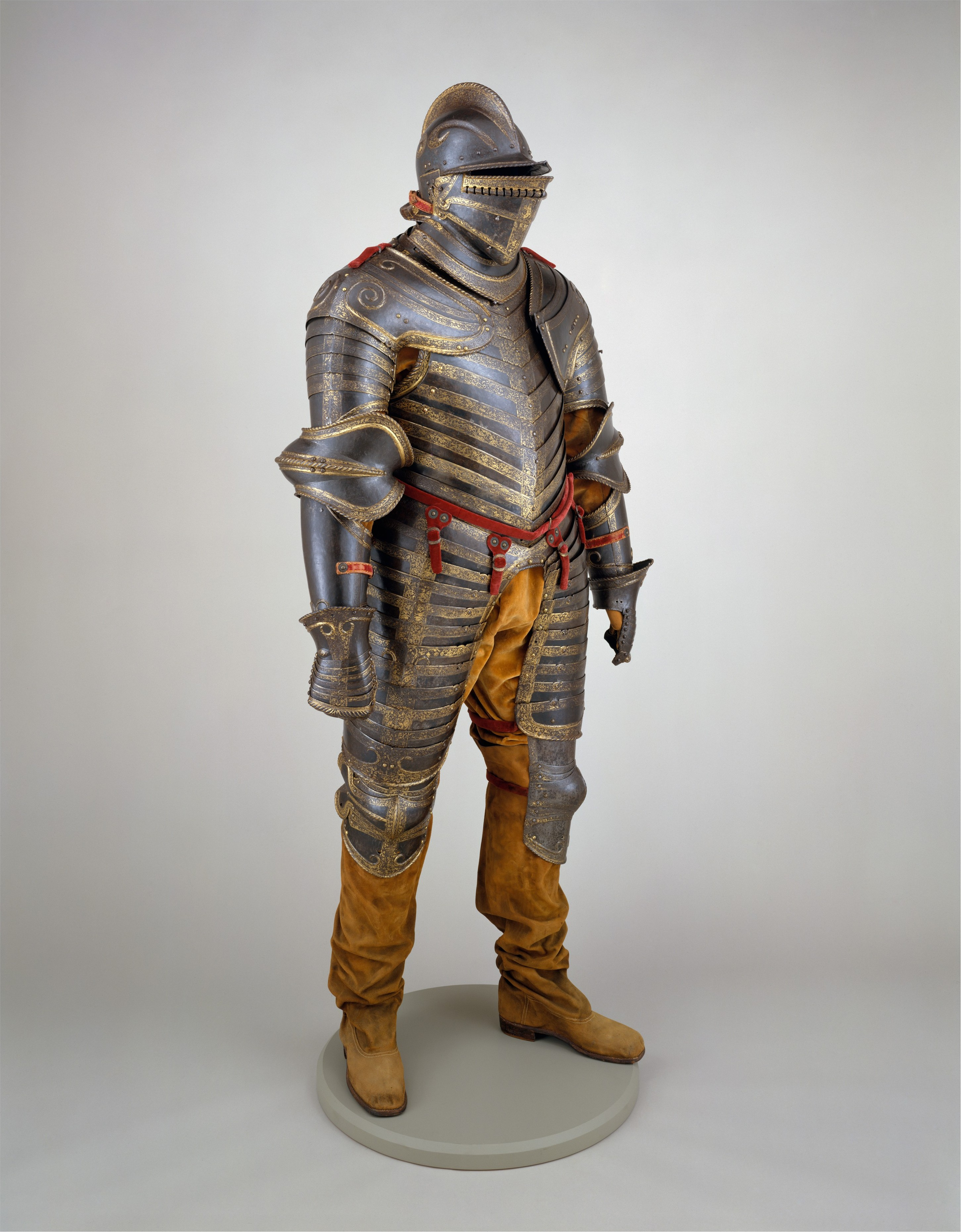 Italian, Milan or Brescia; Field armor; Armor for Man